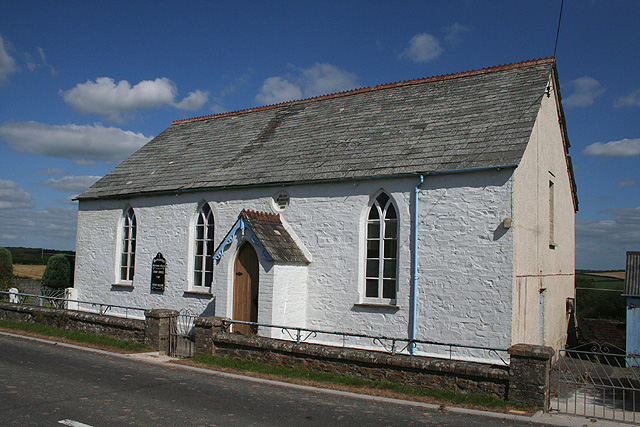 Boyton: Bennacott Methodist Church Sunday services are at 11am. The chapel was constructed in 1879; by the B3254 between Launceston and Whitstone